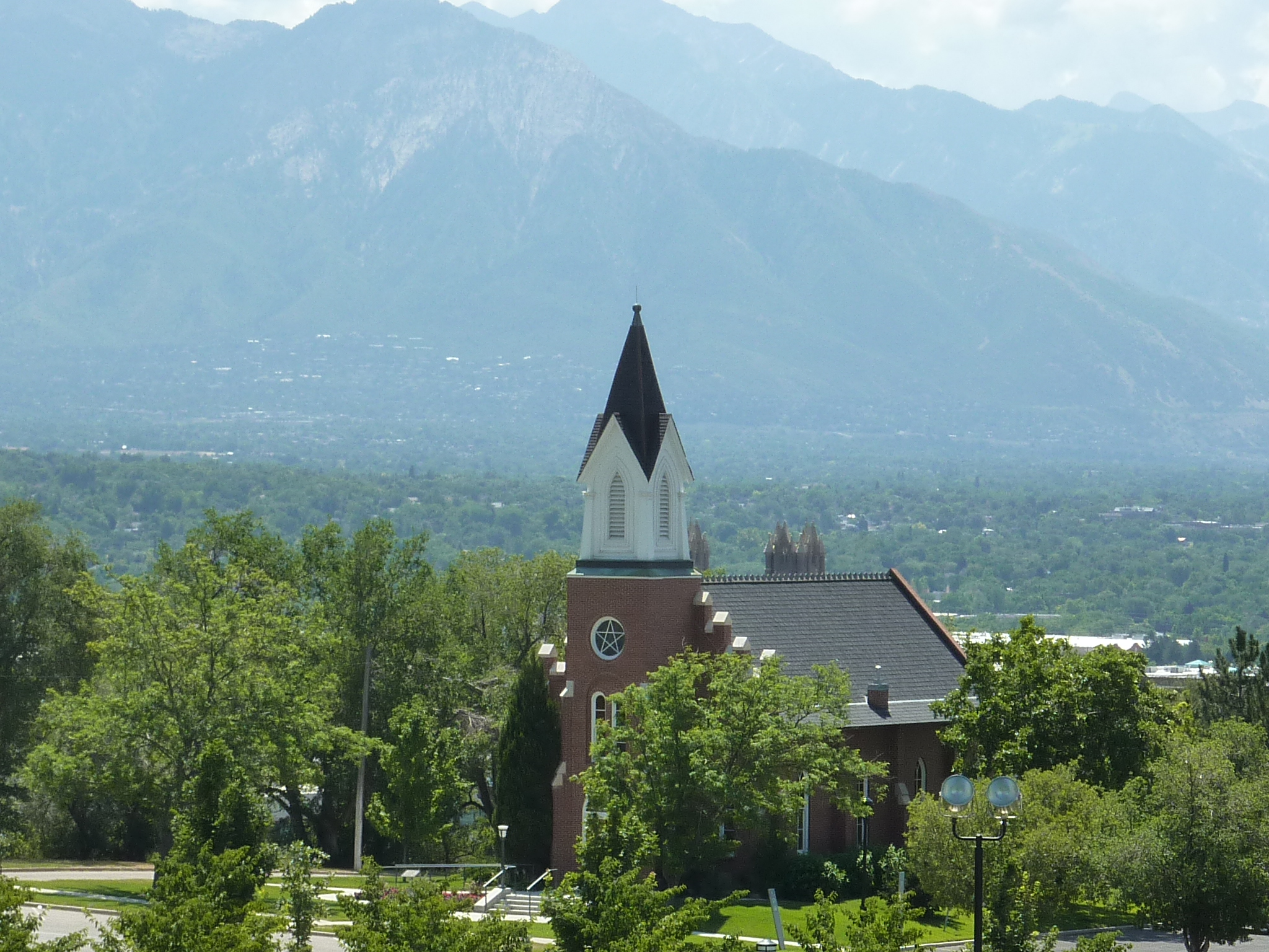 White Memorial Chapel (Salt Lake City), former meetinghouse of the 18th ward of the Church of Jesus Christ of Latter-day Saints (LDS).